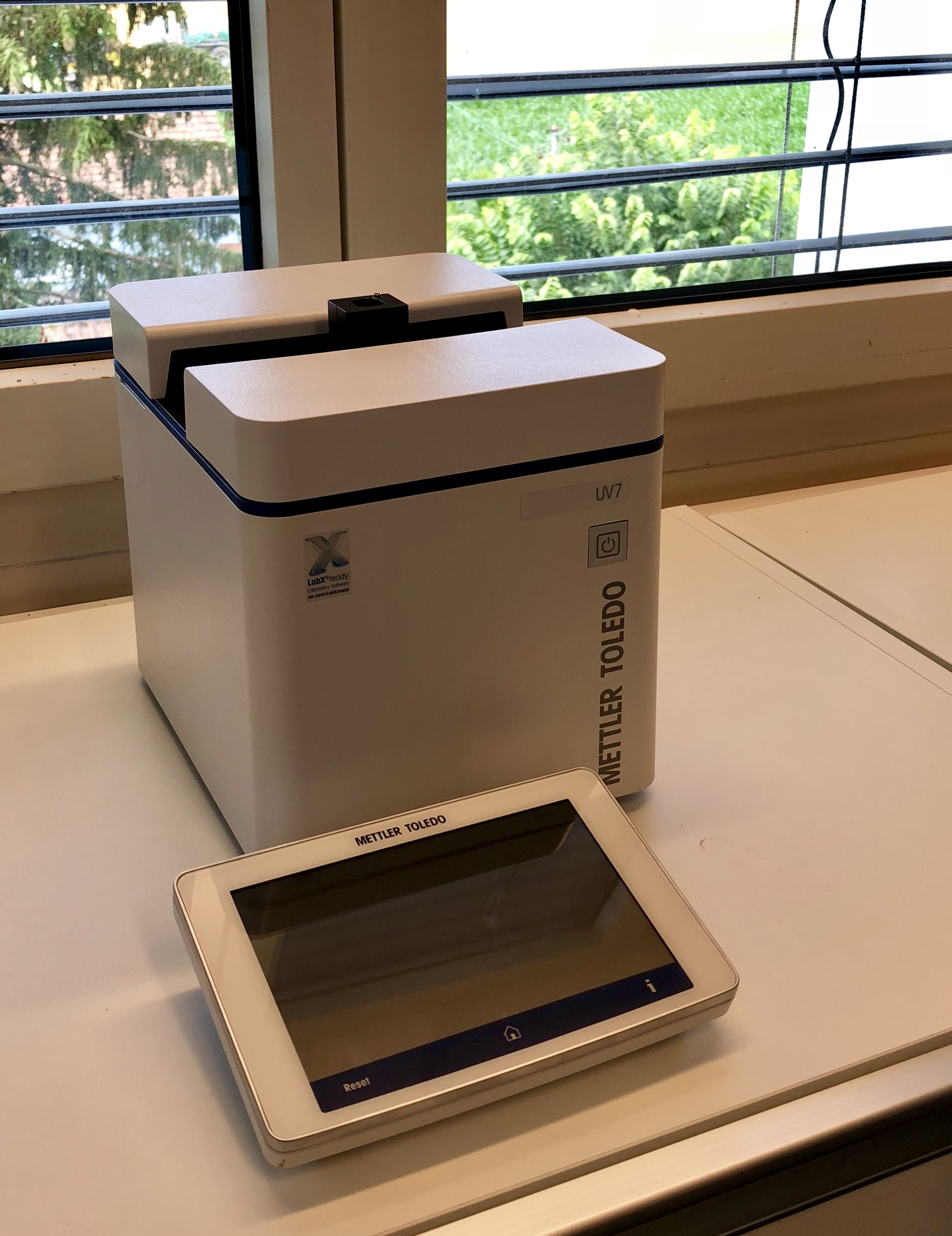 Modern array-based spectrophotometer by Mettler Toledo